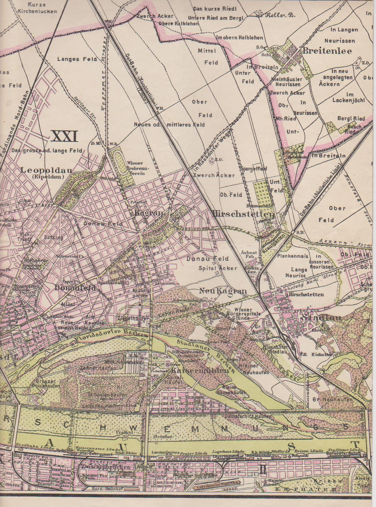 Map of Vienna of 1912, supplement covering the 21st district, Floridsdorf (incorporated in 1904), part showing the villages of Leopoldau, Kagran (with planned street grid not carried out), Kaisermühlen (until 1938 part of the 2nd district, Leopoldstadt), Hirschstetten and Stadlau, as well as part of the Old Danube and the inundation strip along the Danube river.